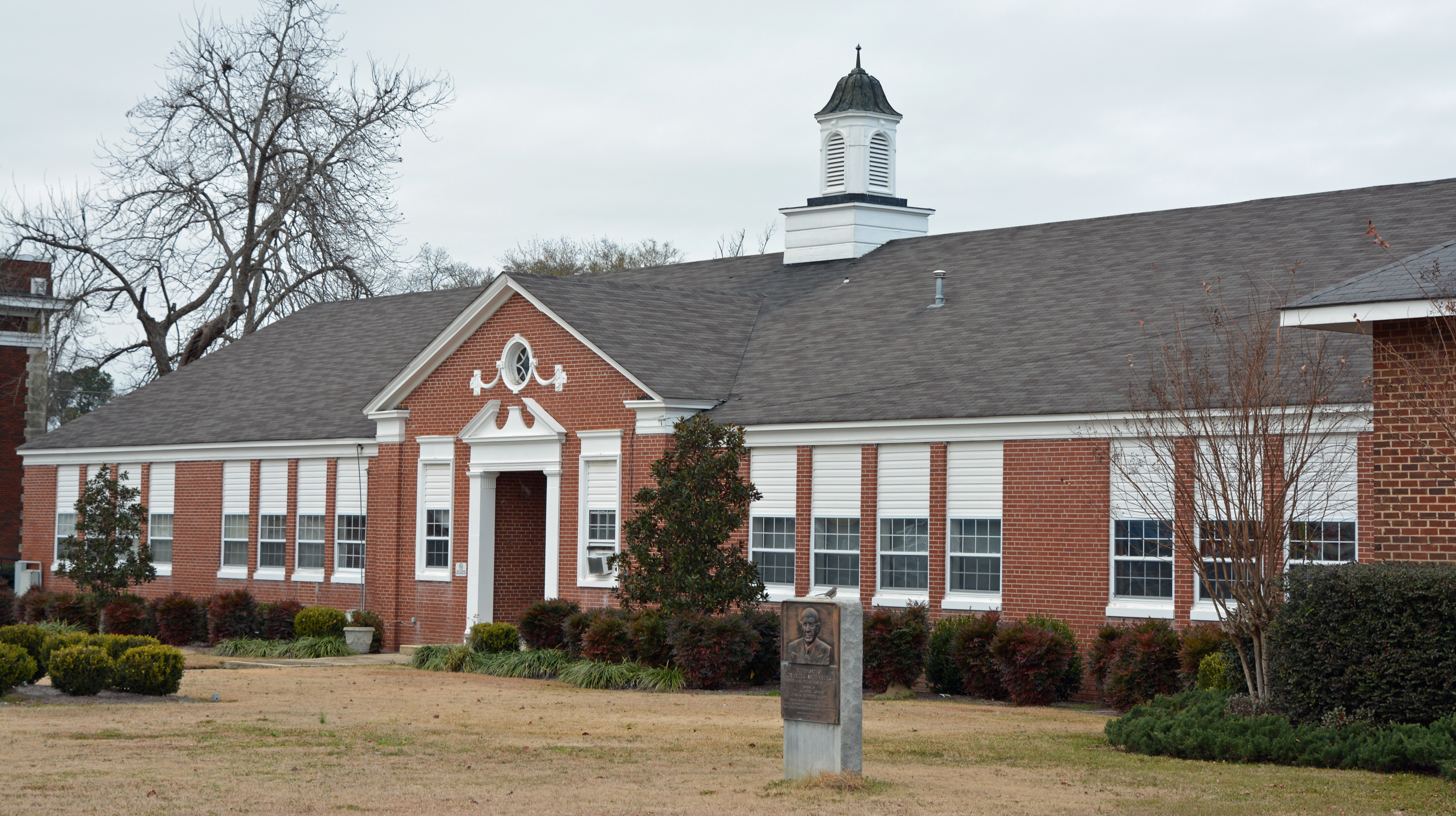 Cochran Municipal Building in Cochran, Georgia, U.S. The Bleckley County courthouse is to the left and the school is to the right.